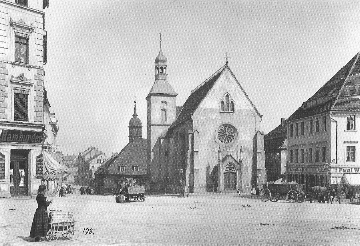 Bautzen; Stone street in 1899